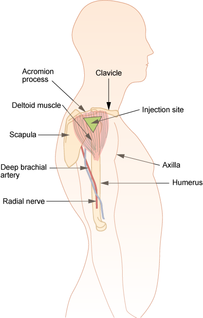 Medical diagram showing the deltoid site for intramuscular injection